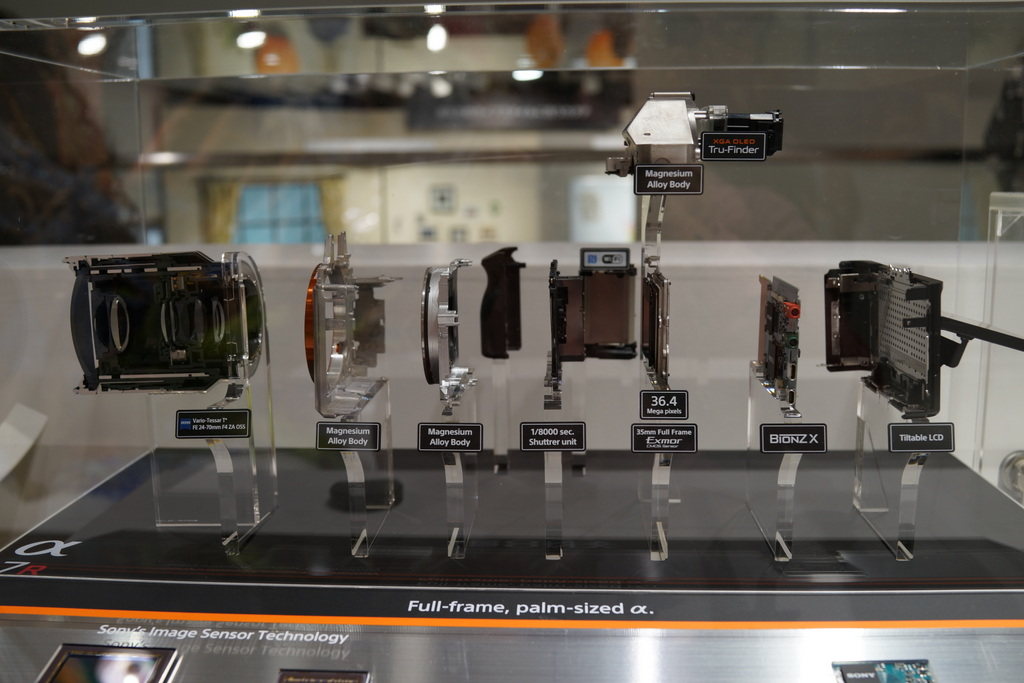 The Anatomy of an A7